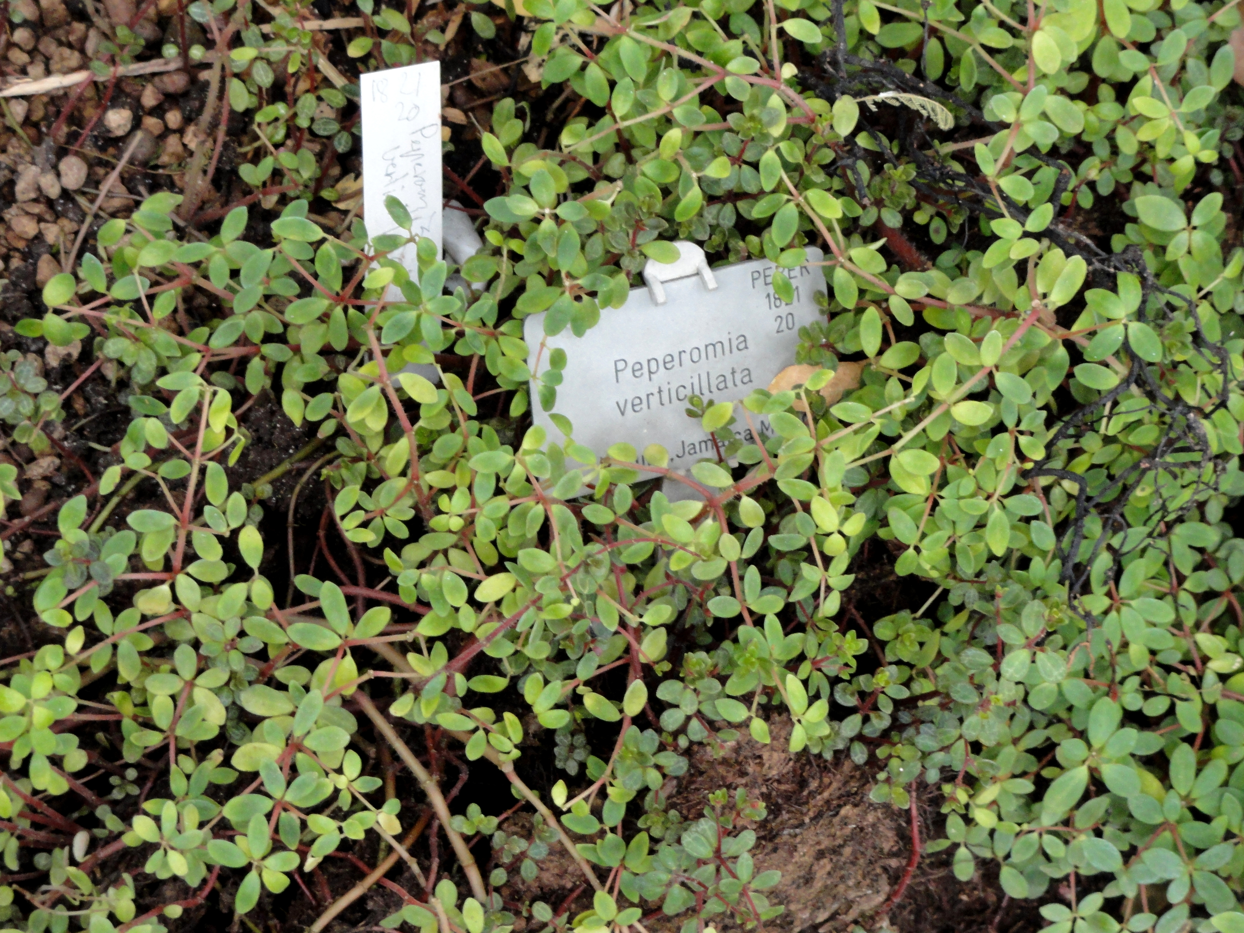 Botanical specimen in the University of Copenhagen Botanical Garden, Copenhagen, Denmark.